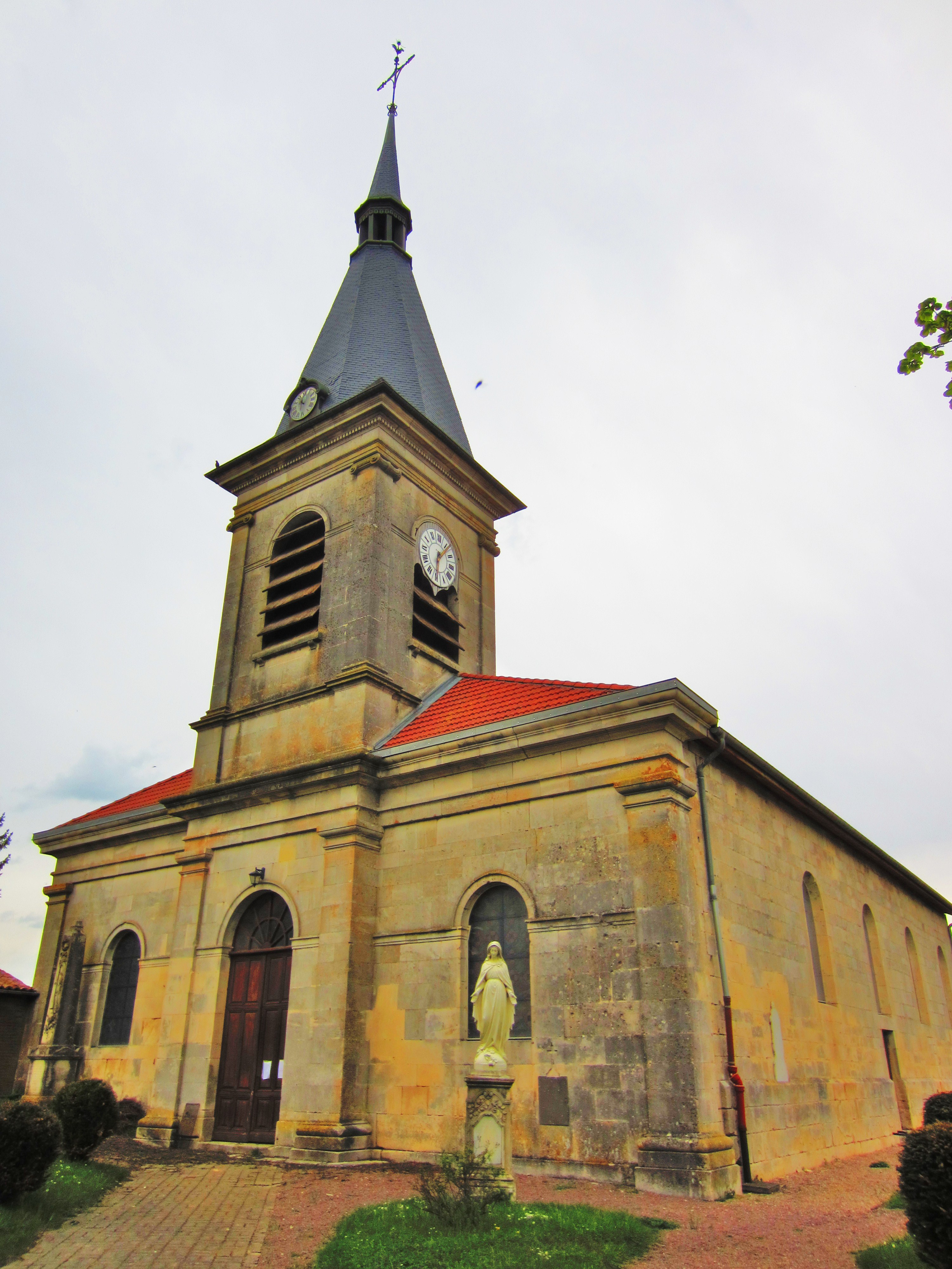 Heudicourt Cotes church